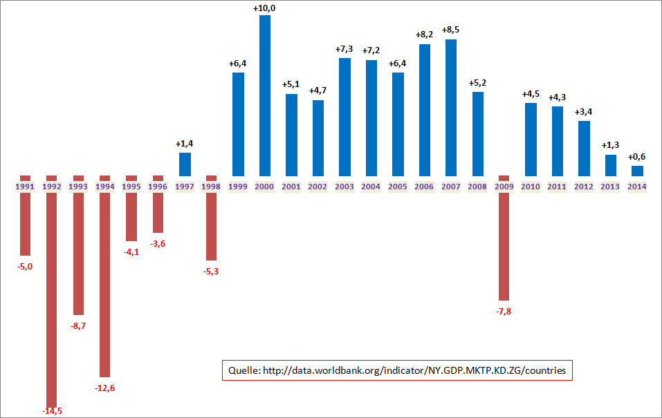 Development of the Russian GDP (1991–2014)